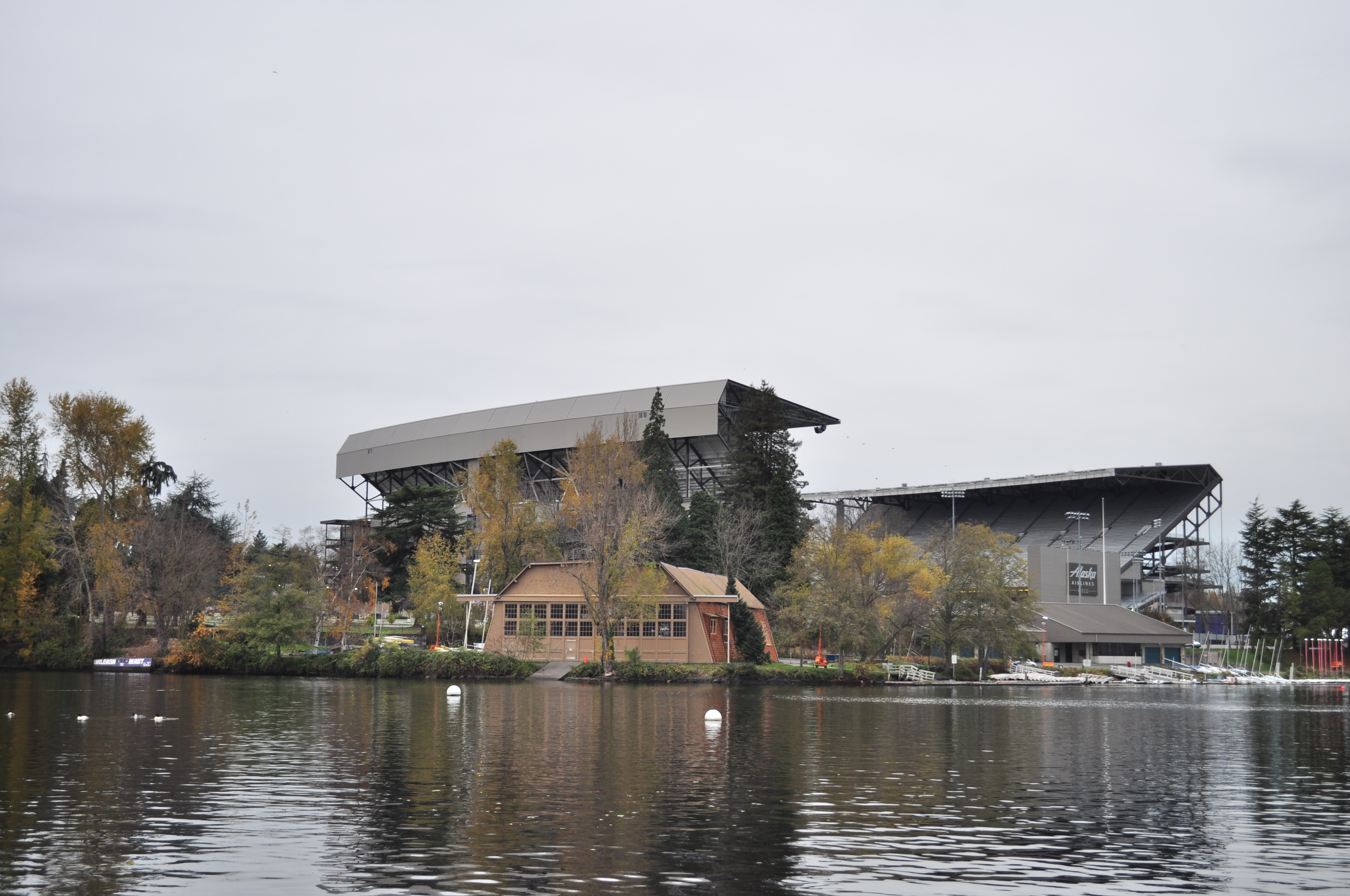 Naval Military Hangar-University Shell House-Canoe House, University of Washington Waterfront Activities Center, (and behind that Husky Stadium) seen from across the Montlake Cut of the Washington Ship Canal as it enters Union Bay. Built in 1918 by the U.S. Navy to serve as a hangar for the Aviation Training Corps, it was never used it for that purpose. It was donated to the university, whose rowing team stored its racing shells there until 1949. It is now the "Canoe House", associated with the Waterfront Activities Center. It was the first University of Washington structure on the National Register of Historic Places, ID #75001856.